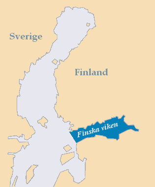 Gulf of Finland